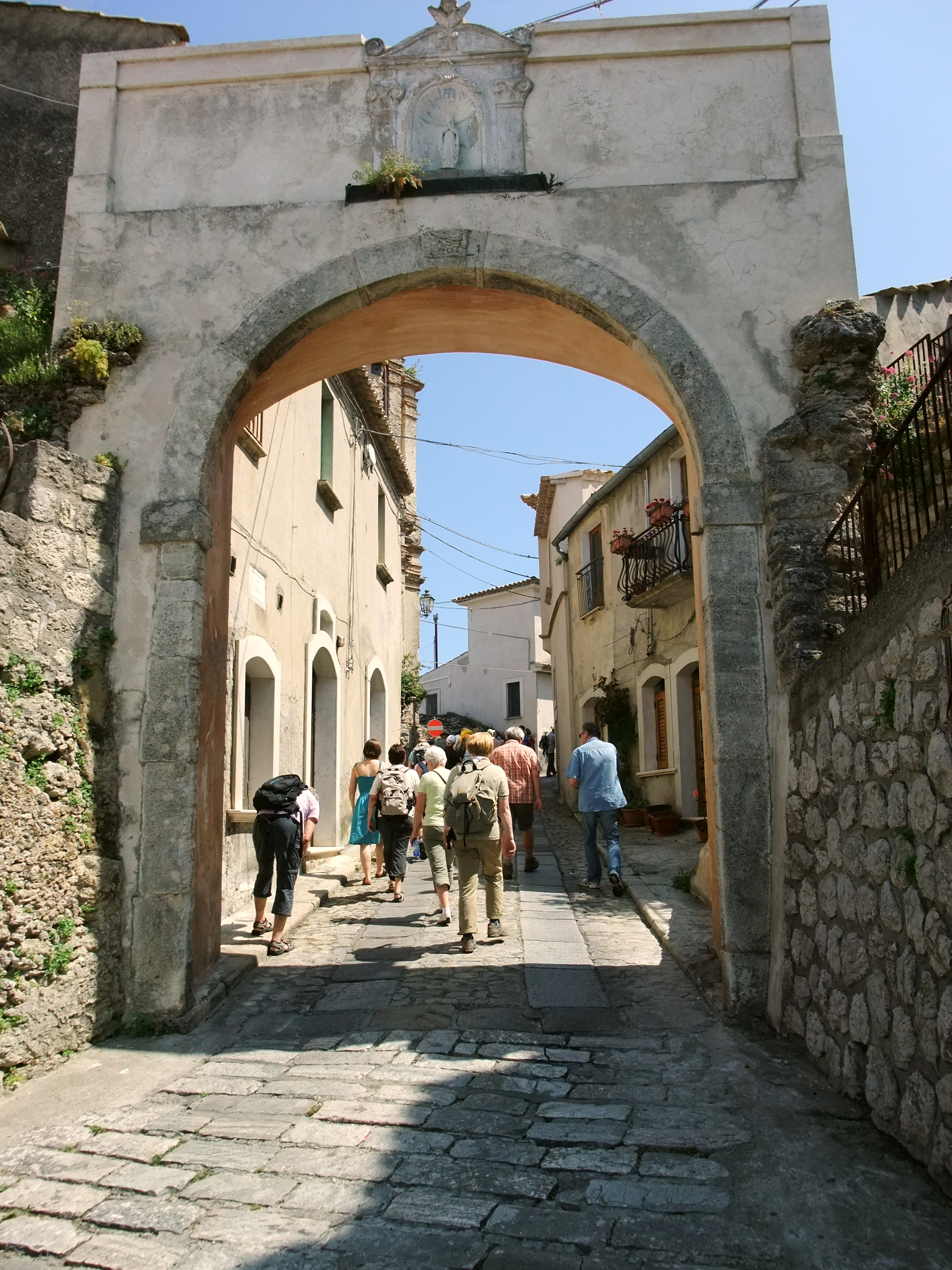 Calabria is the southernmost region of the Italian peninsula. Alley in Gerace (Reggio Calabria).